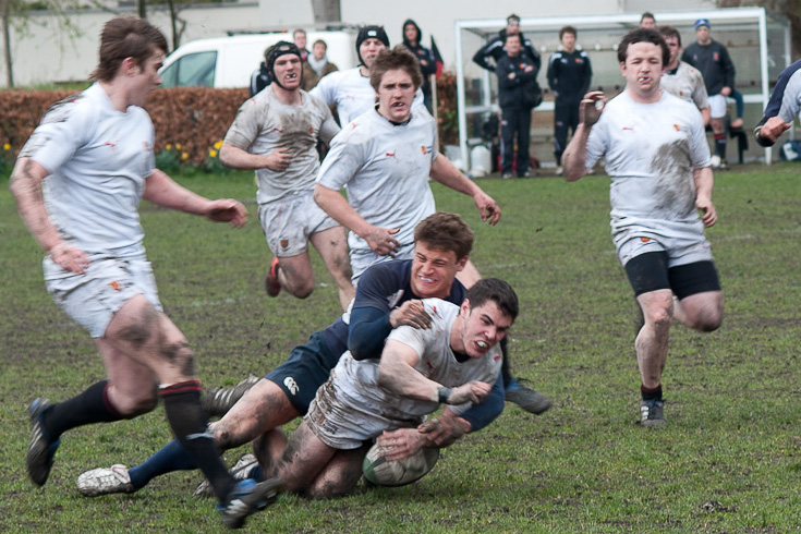 Rugby players at Trinity College in Dublin, March 2011